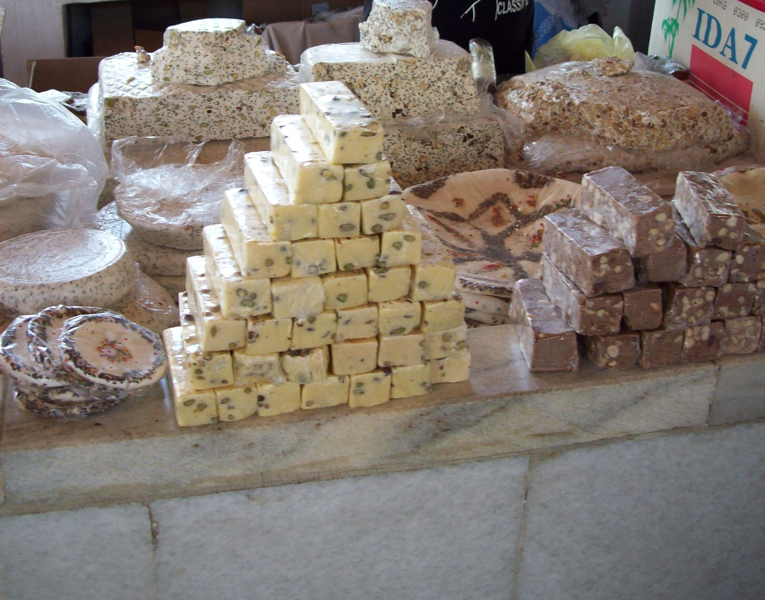 Halva with pistachio and sesame.